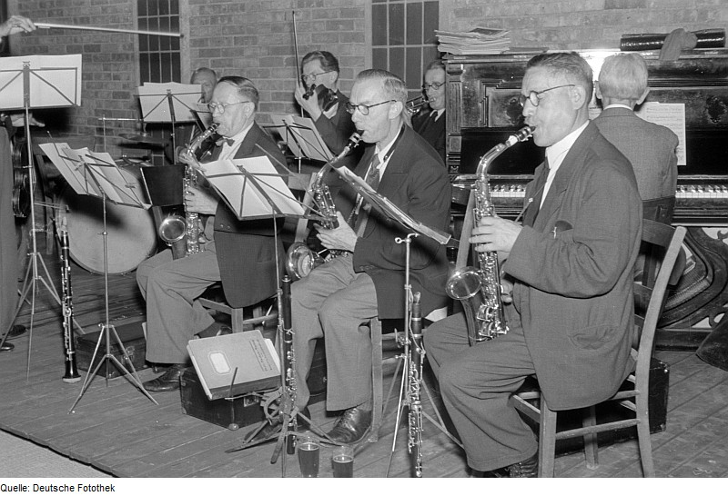 Original image description from the Deutsche Fotothek Festabend